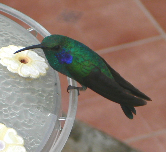 My image from Savegre, Costa Rica in Feb 2006